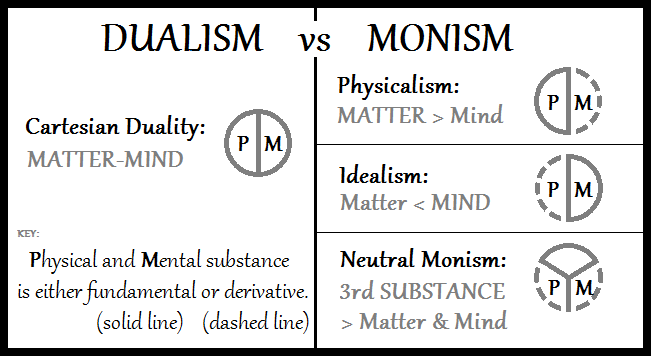 An illustration of the ontologies of dualism versus monism showing how physical substance relates to mental substance (i.e. body & mind) as either fundamental or derivative. Monism is further divided into physicalism, idealism, or neutral monism where the physical and mental are both derivative of a third substance that is neither body nor mind. An alternative term for derivative is emergent. For example, a typical ontology held by physicists is that the physical realm is fundamental, and the phenomenon of consciousness is emergent from that (physicalism). Likewise, a typical ontology held by many in religion is that spirit is fundamental, with both mind and matter being emergent from that (neutral monism).